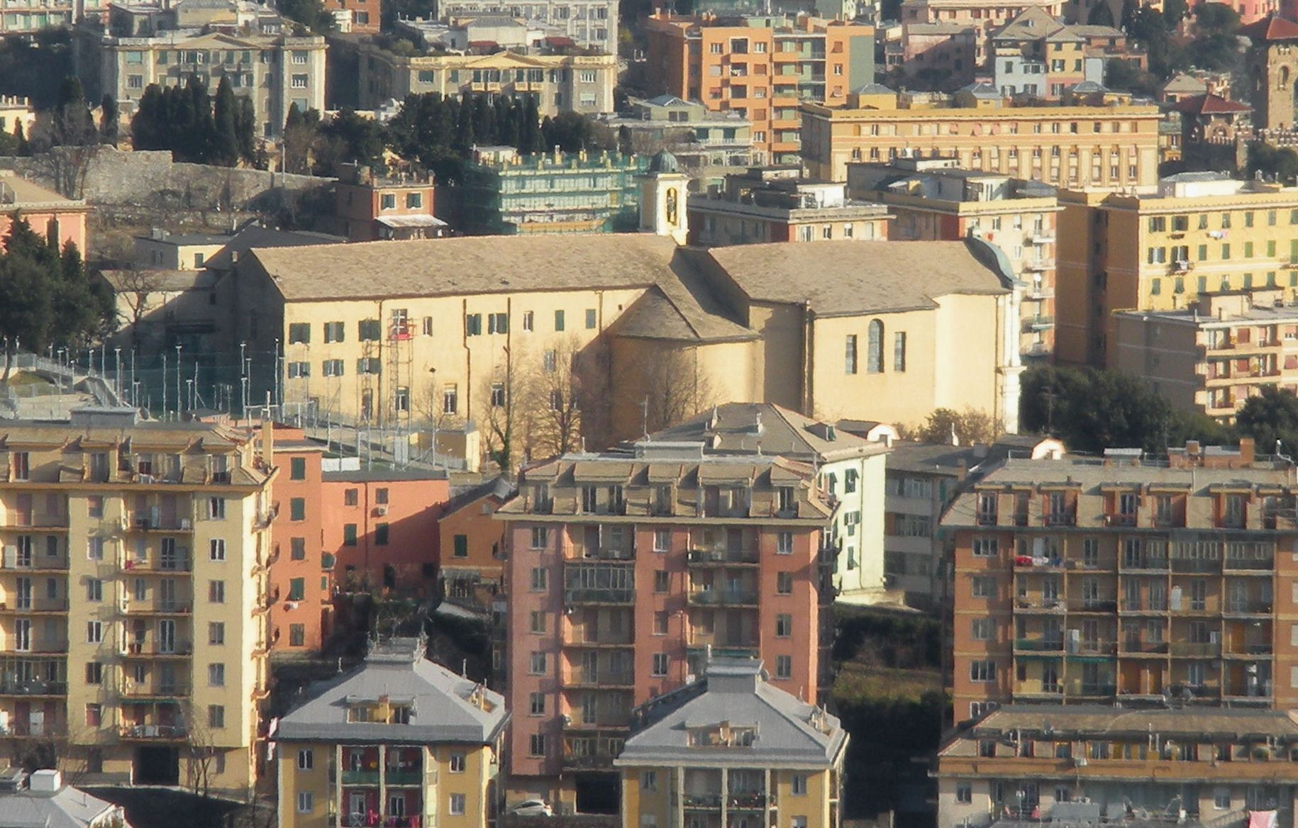 Genoa (Italy), the church of Our Lady of Loreto in the quarter of Oregina